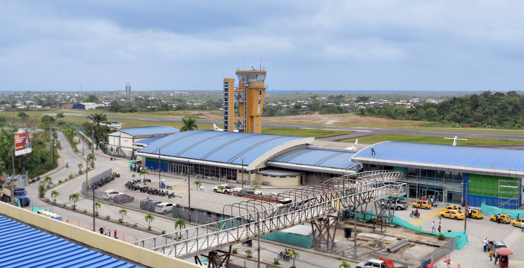 quibdo airport.